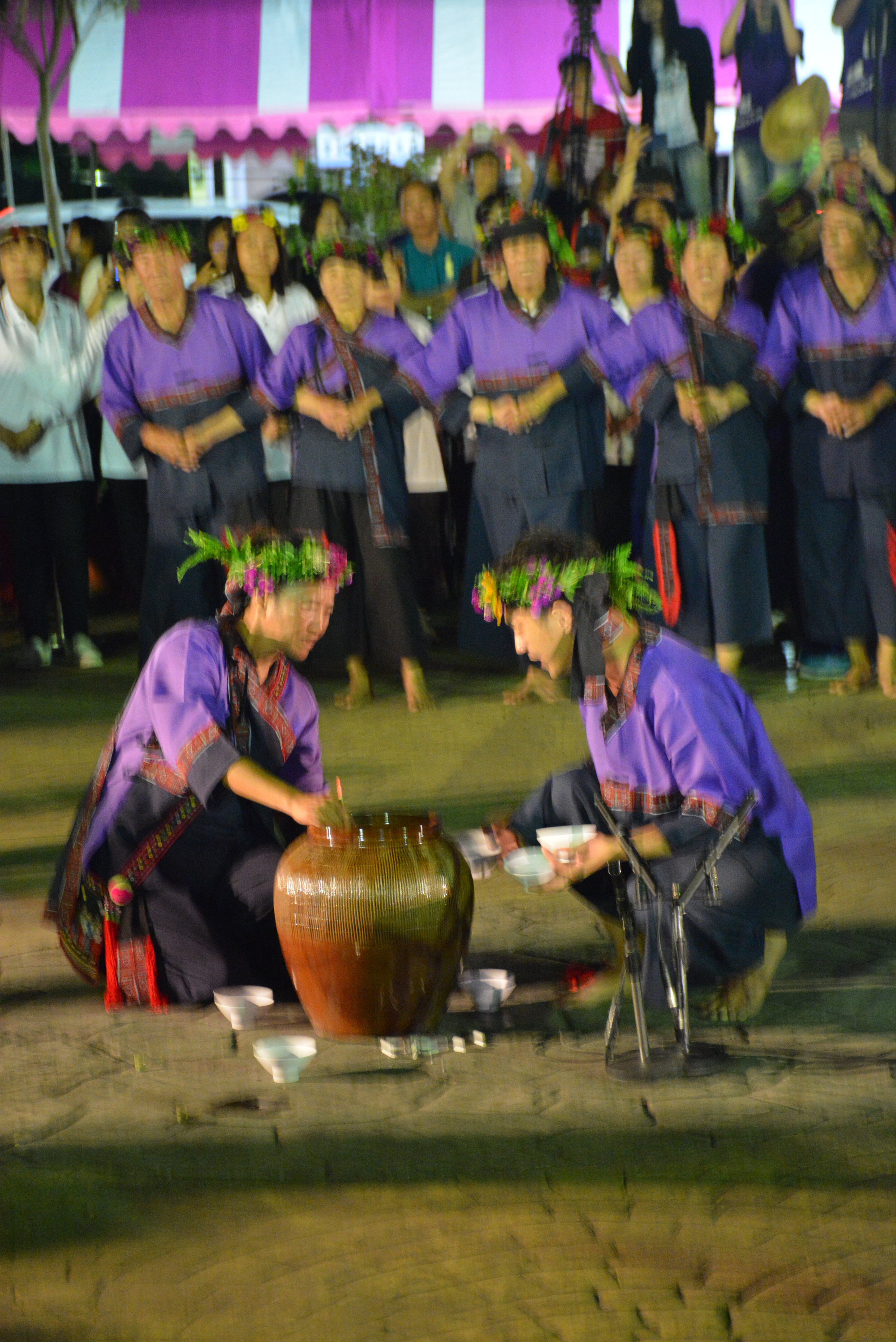 Taivoan people picking Hiang-water from the urn.